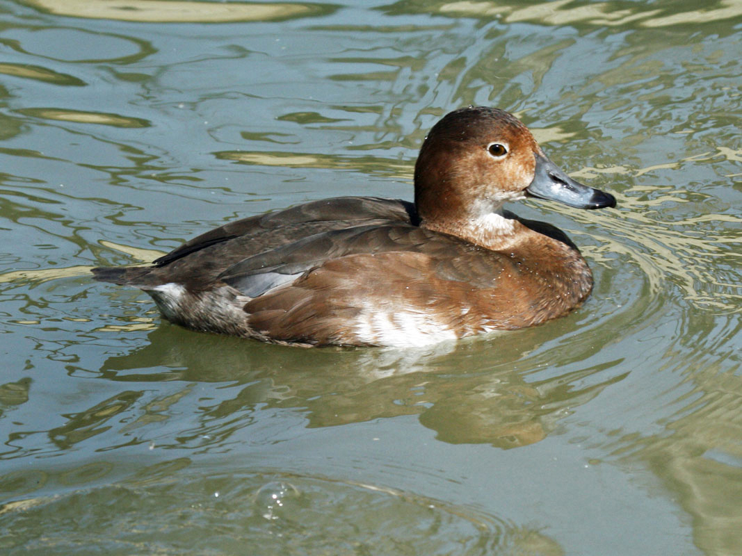 ♀ Redhead (Aythya americana at Sylvan Heights Waterfowl Park in Scotland Neck, North Carolina.